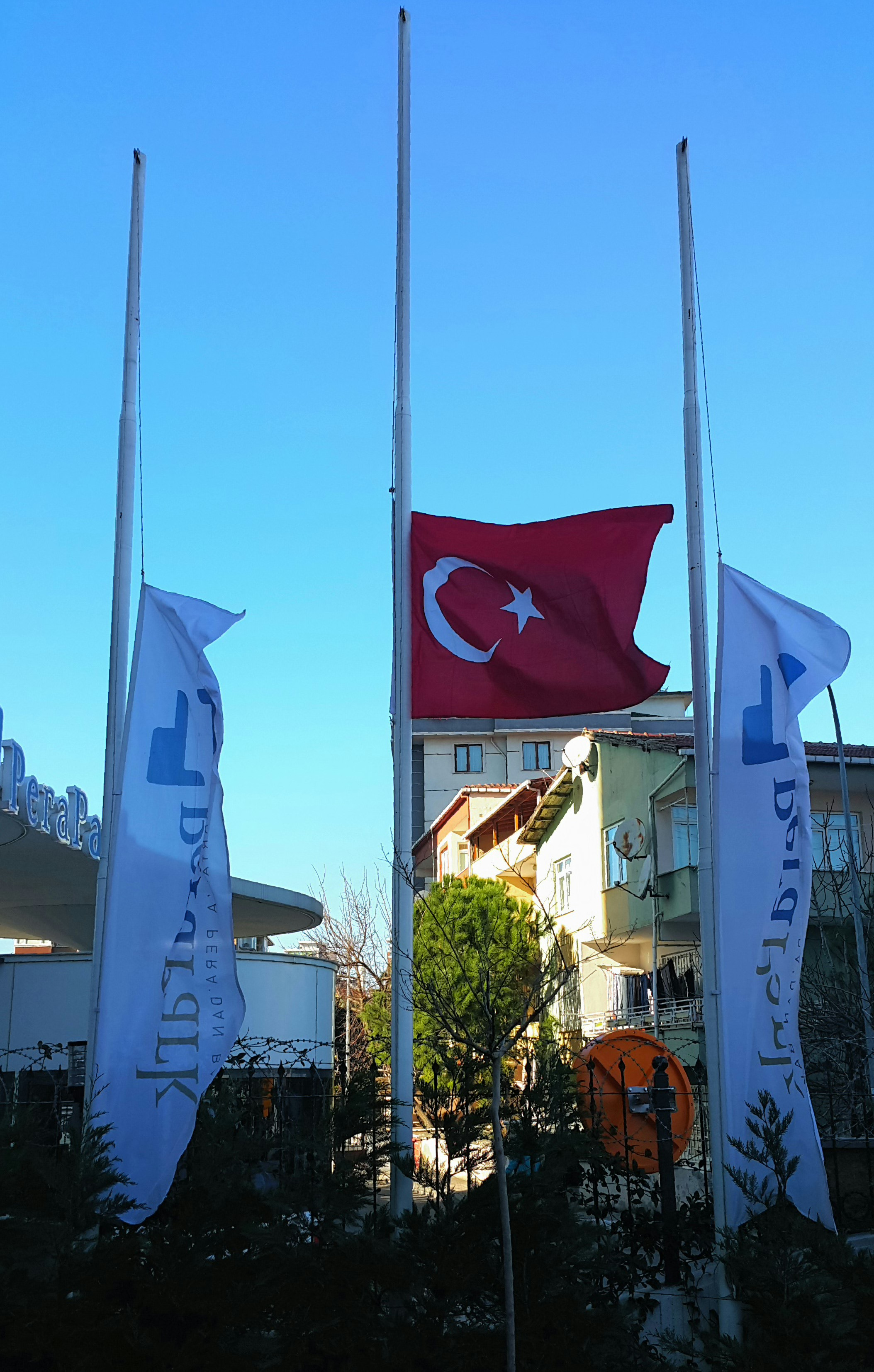 Turkish flag at half staff after 2016 Beşiktaş attacks, Kartal, Istanbul, Turkey.